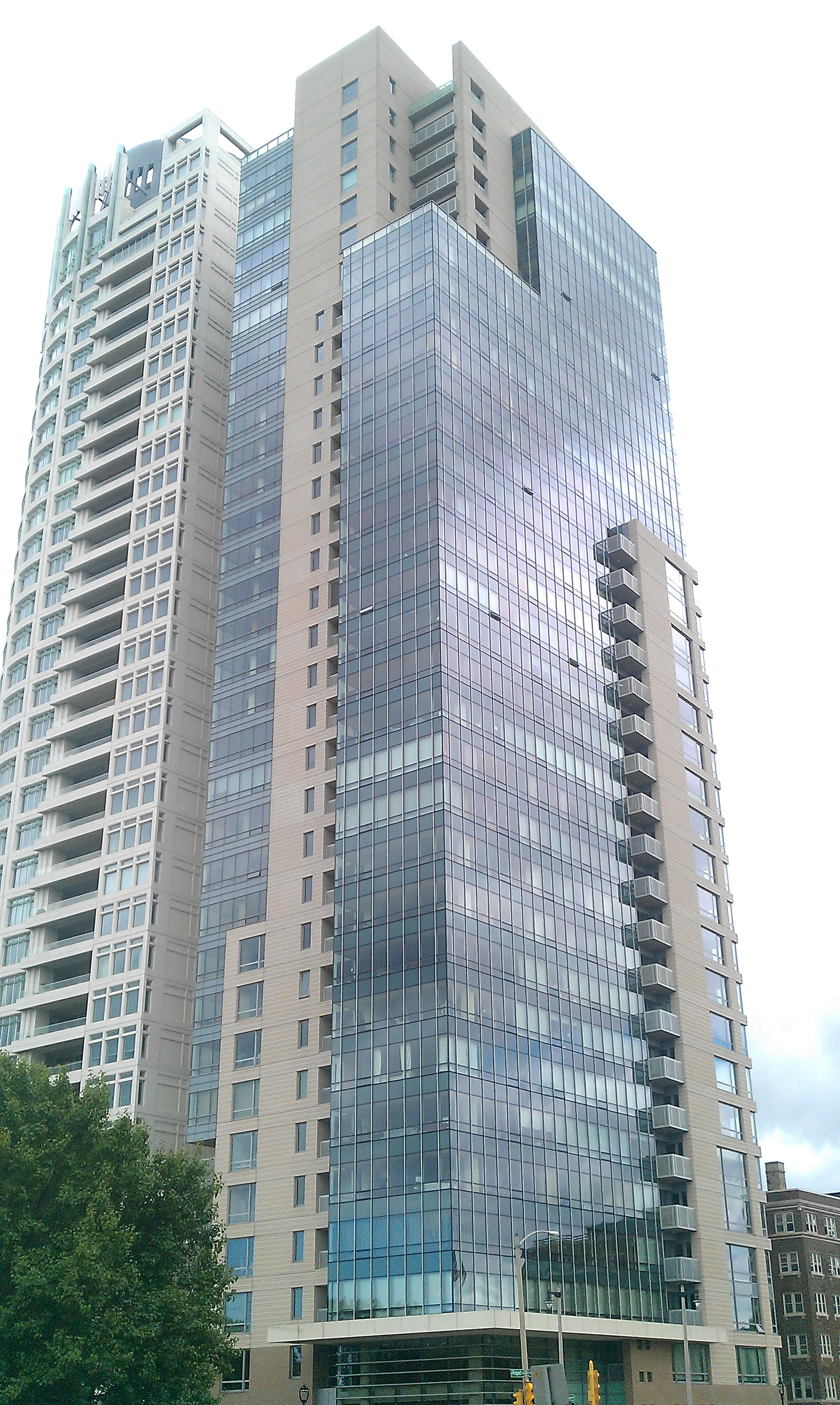 The 33 story Kilbourn Tower from the northeast on a cloudy day